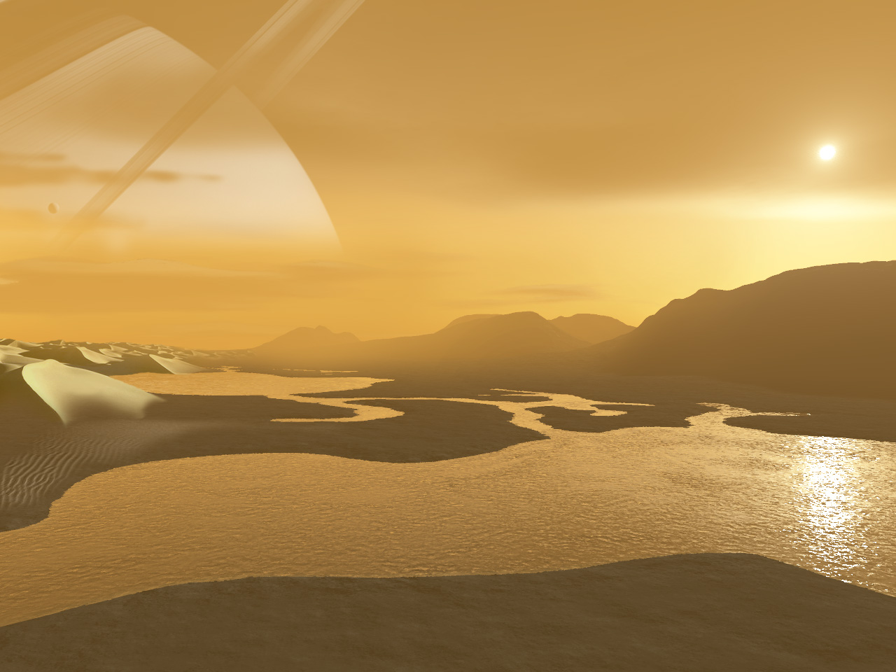 what it might look like from titan. Made by me. User debivort july 2006